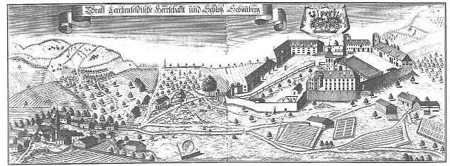 copperplate engraving of Michael Wening (1645–1718) of Schloss Schönberg